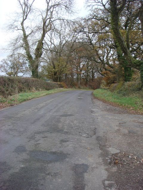 Horsey Knap looking towards Evershot